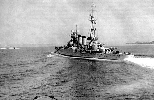 Rear view of Conte di Cavour, 5 May 1938